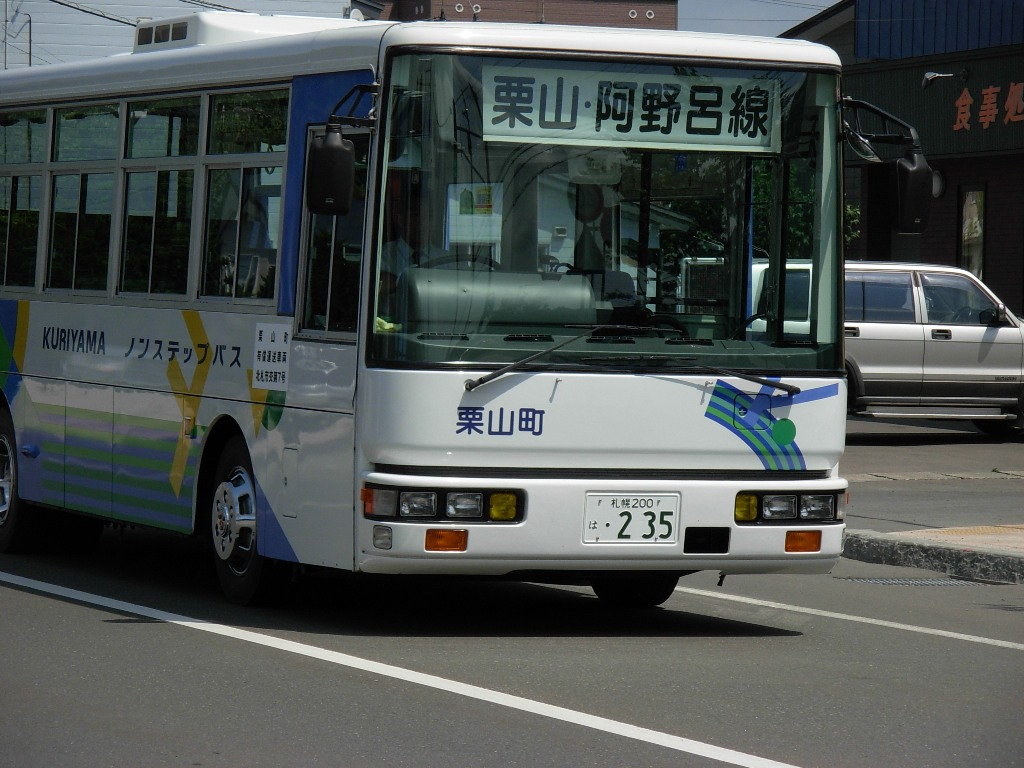 Kuriyama town bus service (vehicle registration number: Sapporo 200 HA 235)